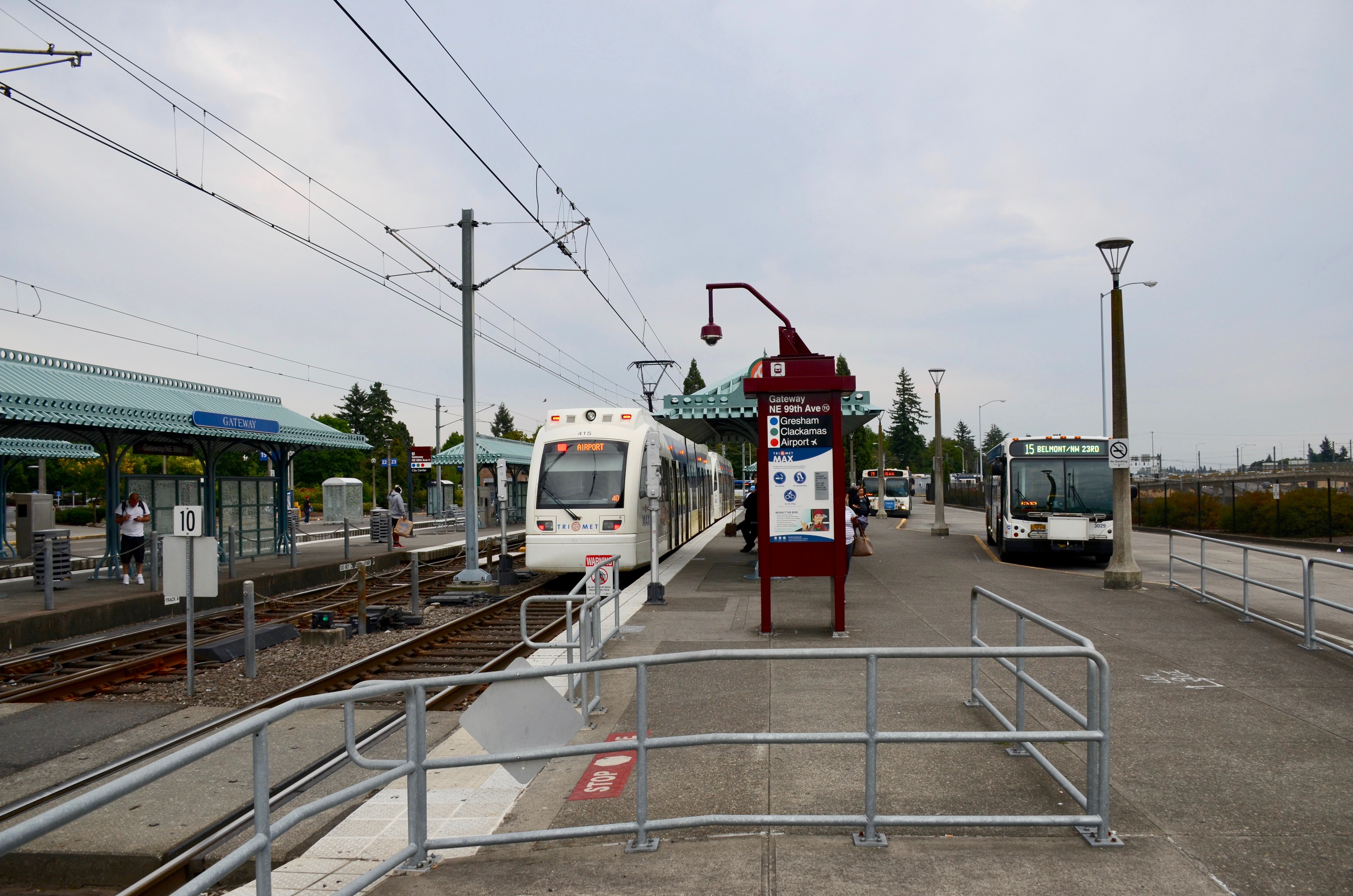 The west side of TriMet's Gateway Transit Center in Portland, Oregon, looking south. An outbound (airport-bound) MAX Red Line train is stopped at the station, and buses on lines 15 and 19 are laying over. The transit center and MAX station opened in 1986.